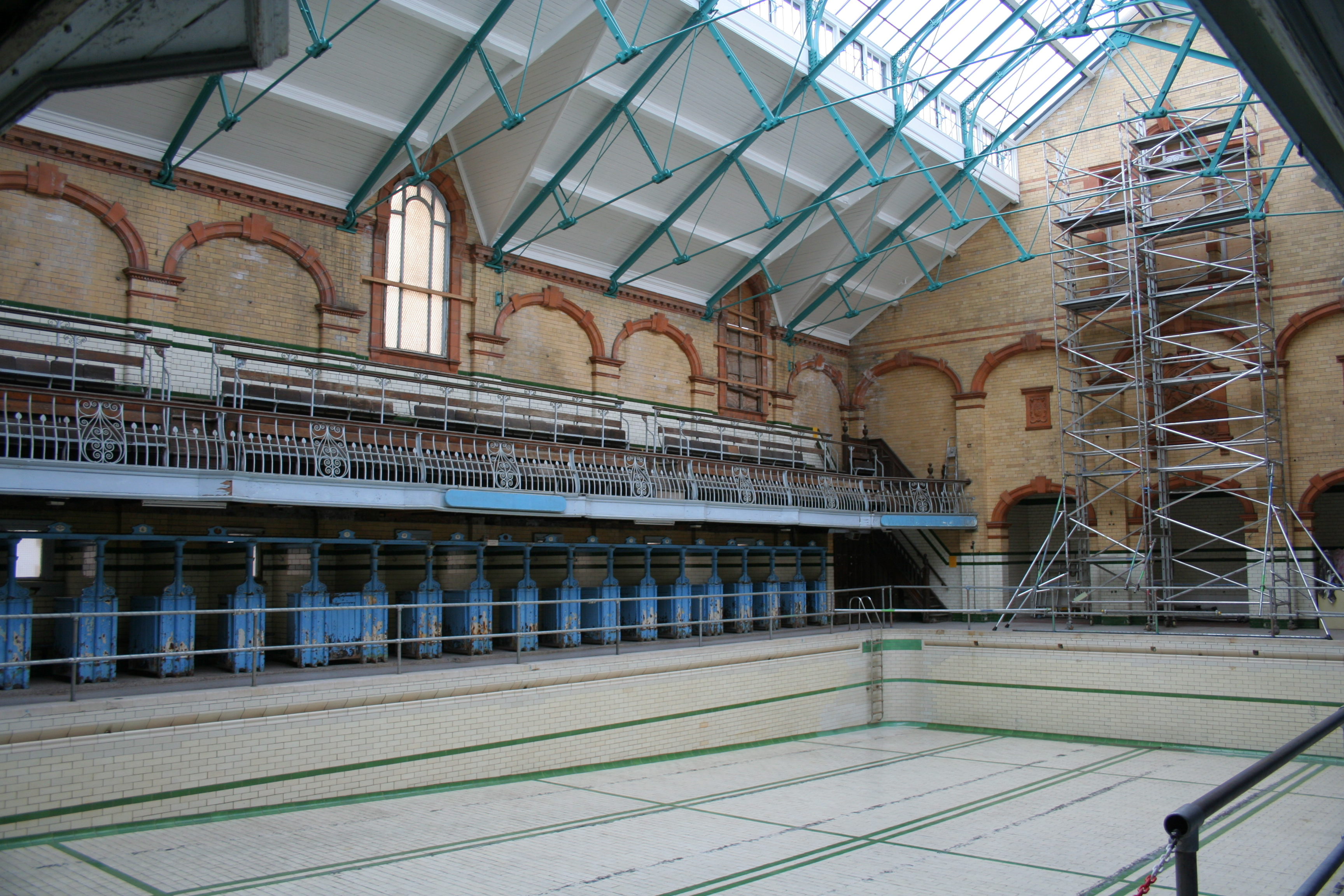 Victoria Baths 007